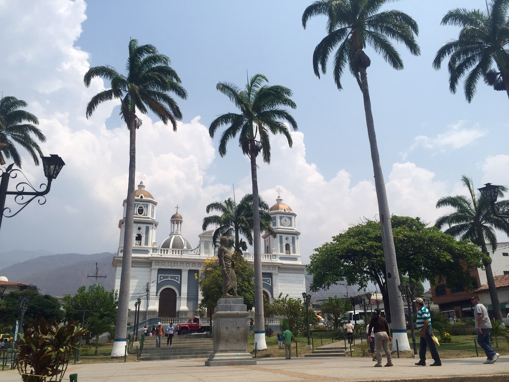 Plaza Bolívar de Ejido en Mérida.